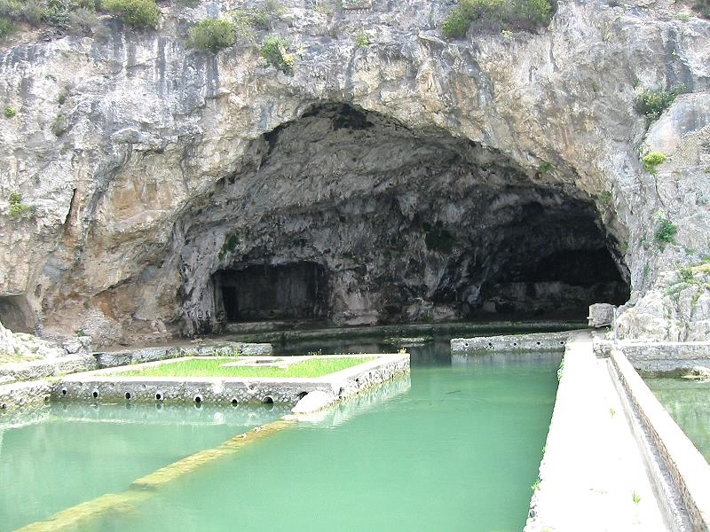 Cave and Triklinio at the Villa di Tiberio near Sperlonga, Italy.